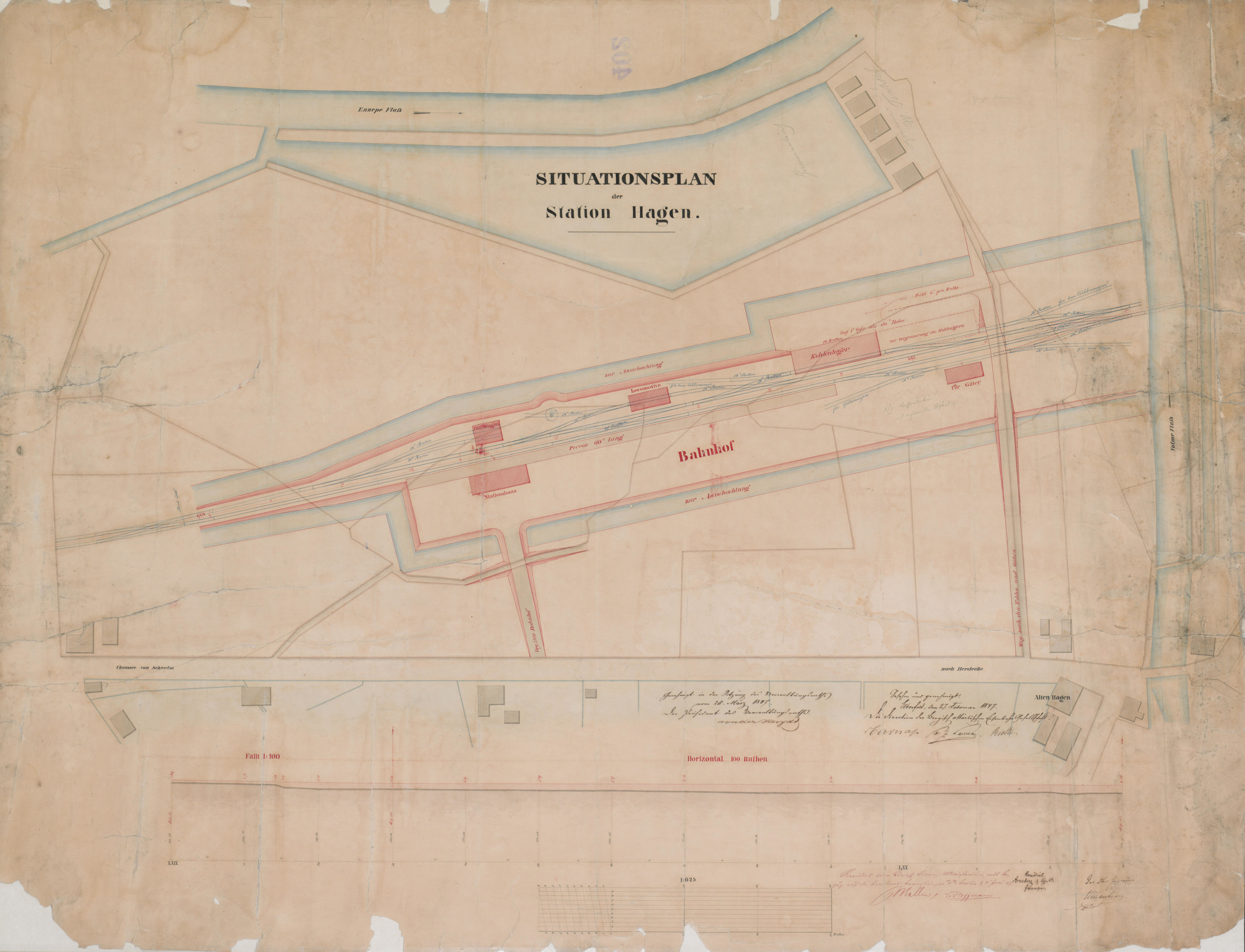 map of Hagen station (today Hagen Hauptbahnhof) as of 1847.